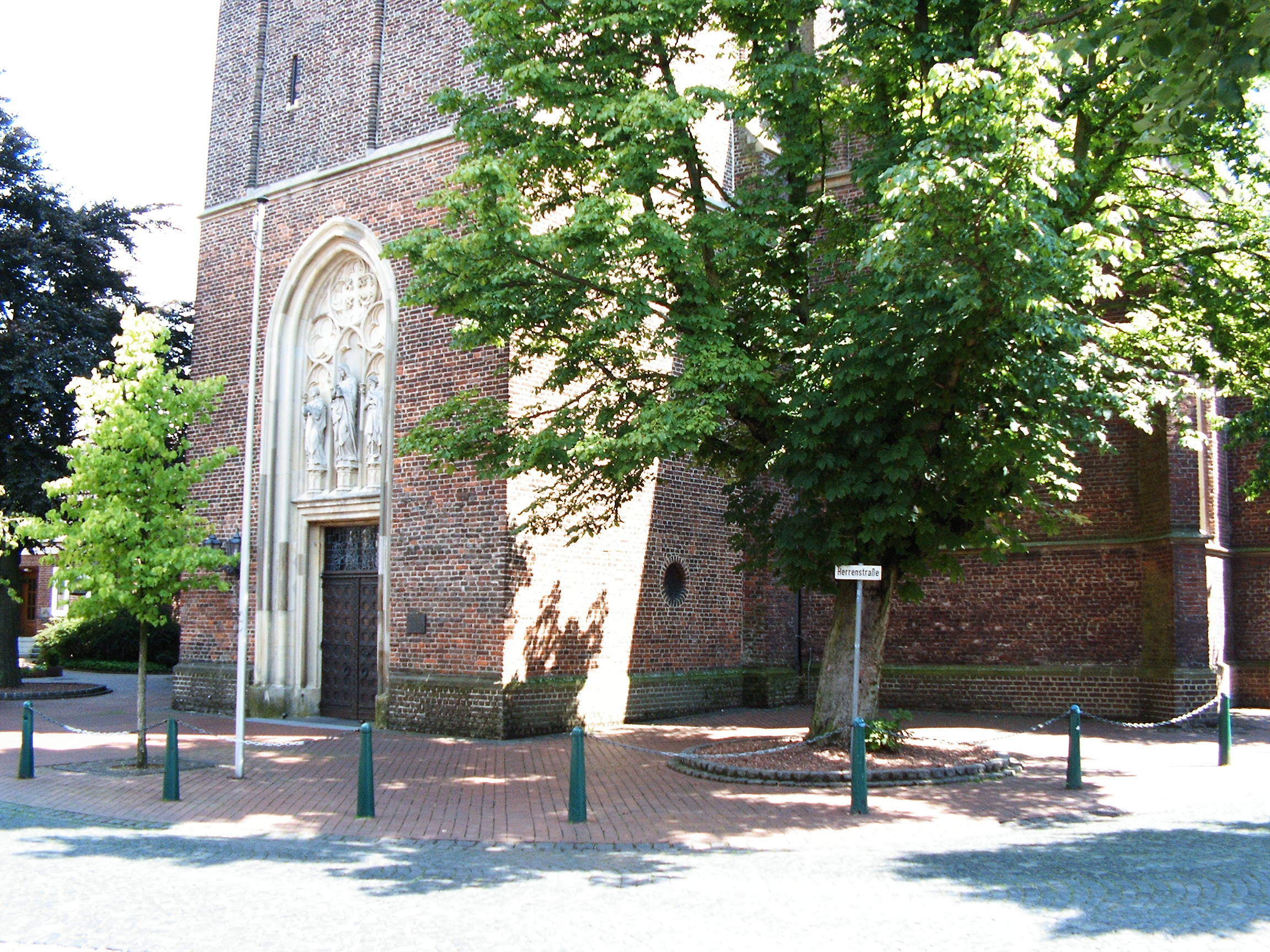 Sonsbeck: entrance of the Catholic Church